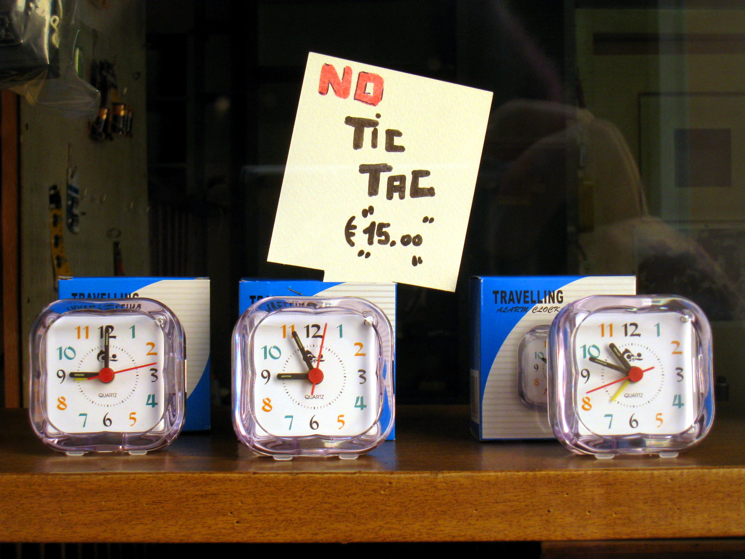 Clocks in a shop window in Milan, Italy. The sign uses an onomatopoeia ("tic-tac", ticking) to indicate that they are noiseless.